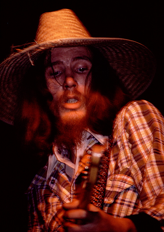 Zoot Horn Rollo with Captain Beefheart and his Magic Band at Leeds University 2nd May 1973